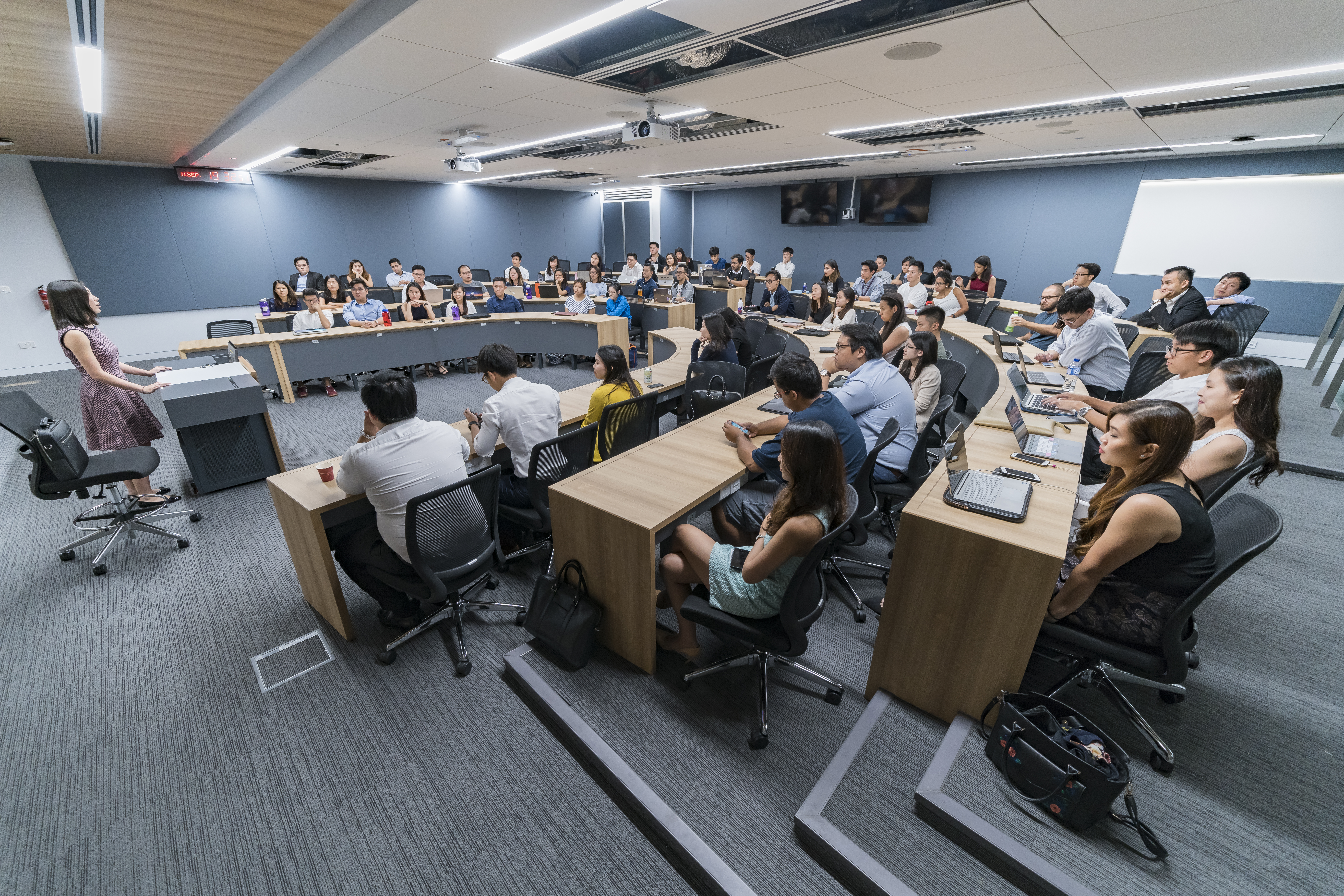 singapore management university school of law 2017 seminar room